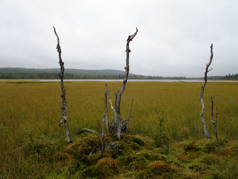 Lake Kroksjö in Lycksele Municipality, Swedish Lapland. The water level was lowered in the beginning of the 20th century to create natural meadows.